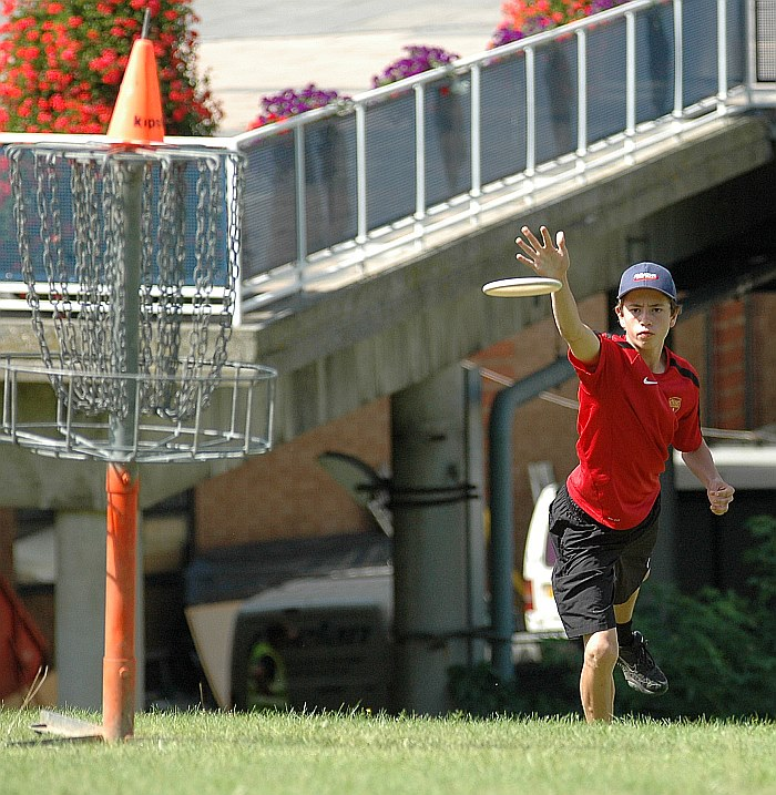 Discgolf player Kaj Larsson from Härnösand, Sweden